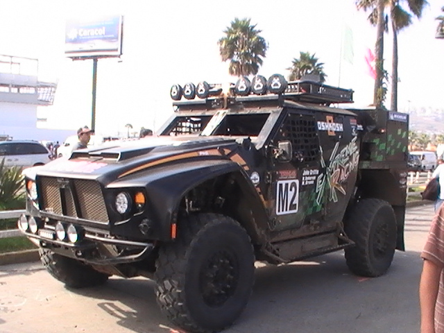 SCORE Class M-Truck at the start of the 2010 Baja 1000